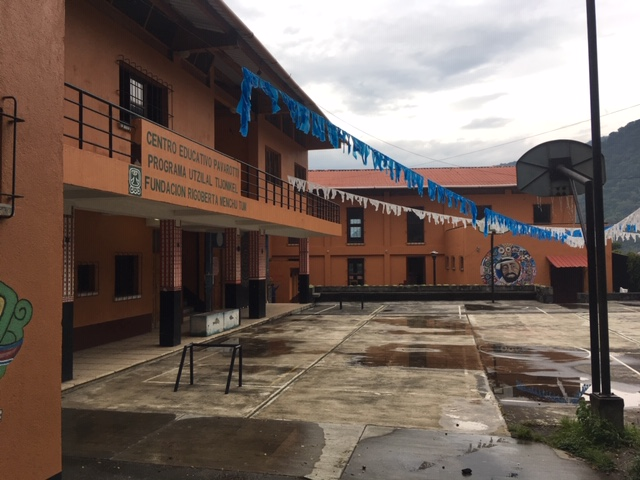 depicts the centro educativo in san lucas